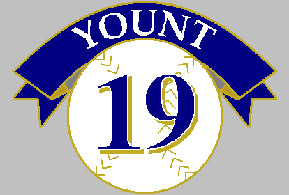 Source: I, Pharos04 made this picture on MSPaint to serve as a retired number on the Milwaukee Brewers page.